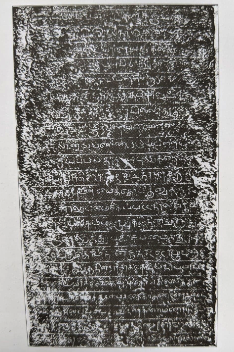 Nankunattar Anuradhapura inscription